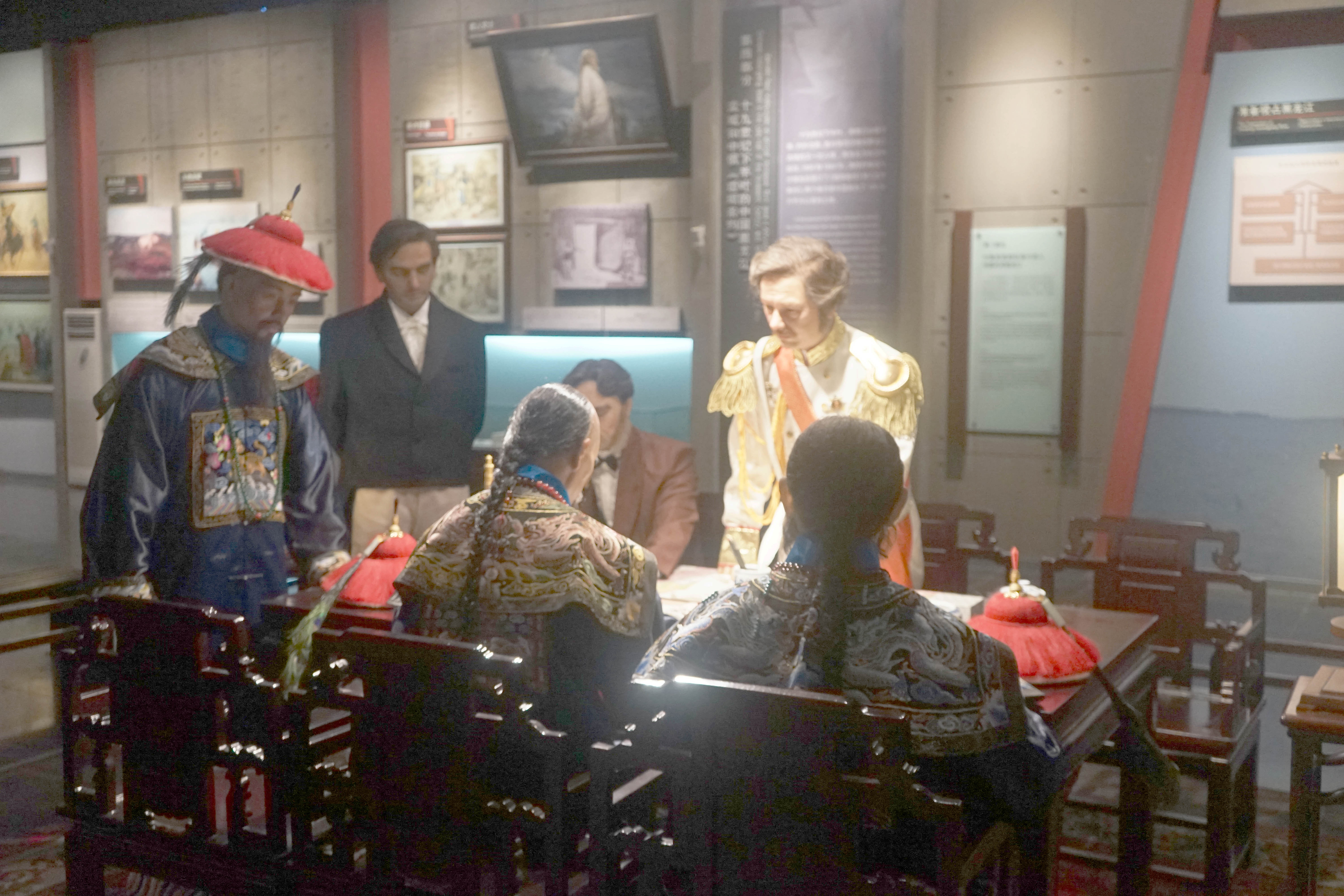 Scene Recover: Signing the "Treaty of Aigun" (《瑷珲条约》签订场景复原)